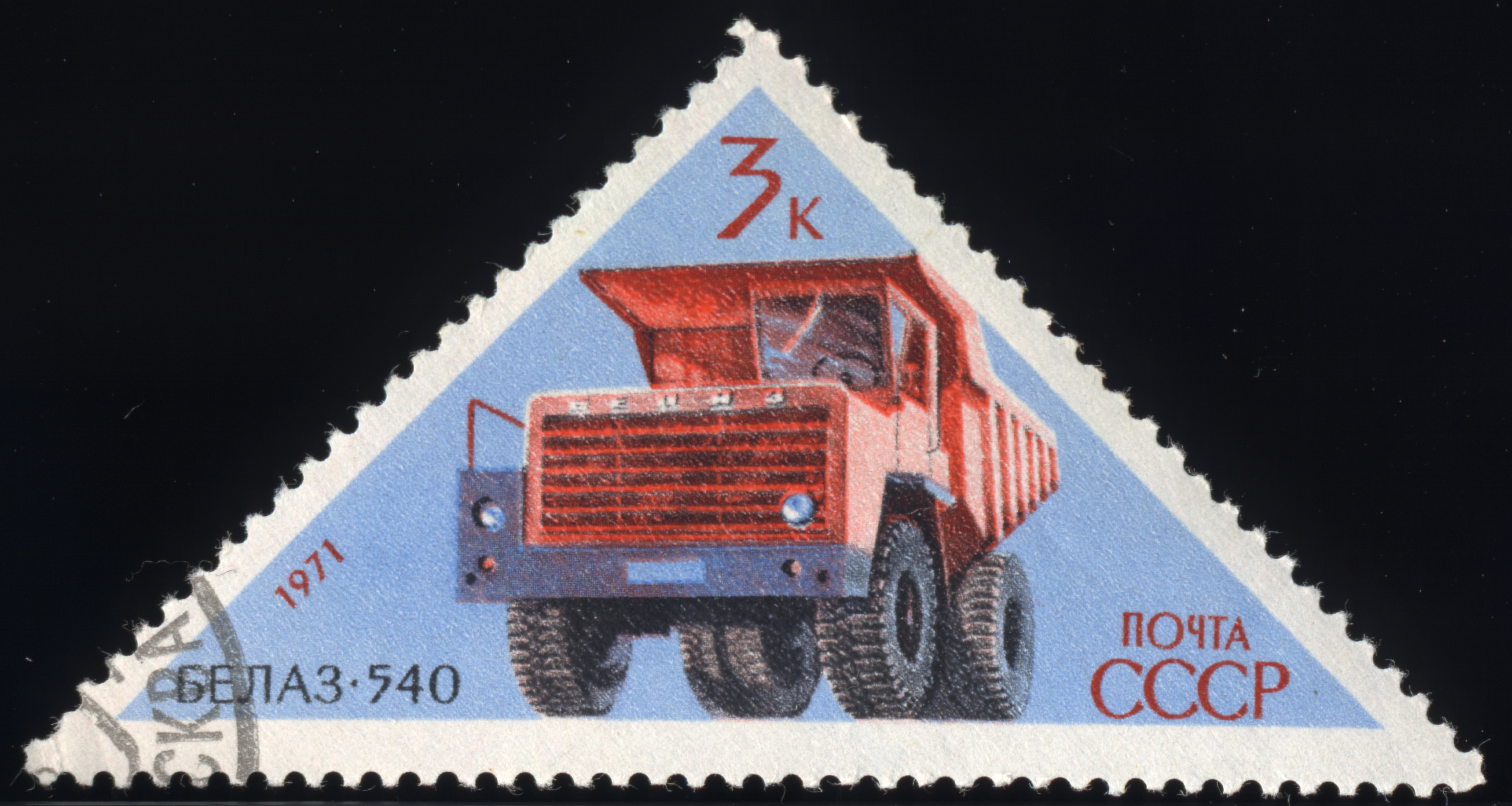 USSR stampː BelAZ-540 Tipper Truck. Seriesː Soviet Motor Vehicles